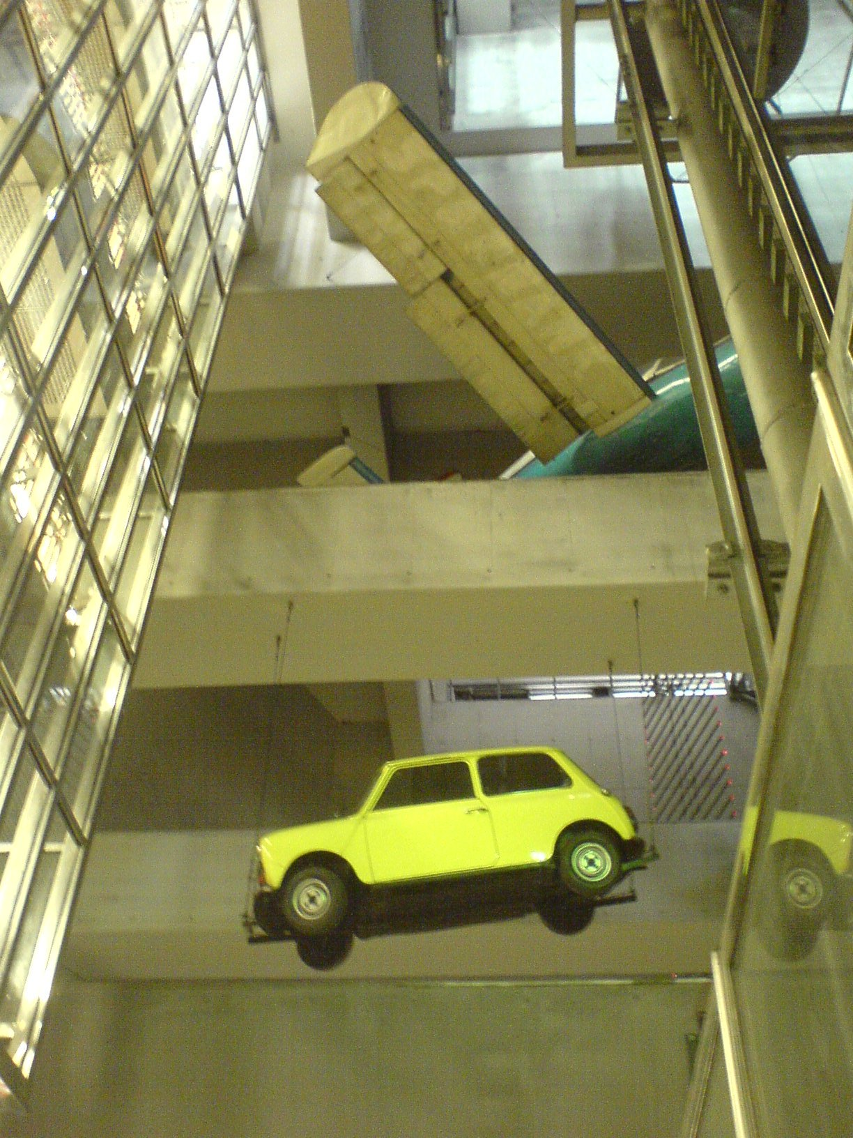 Mini at the Vienna Underground Station Schweglerstraße